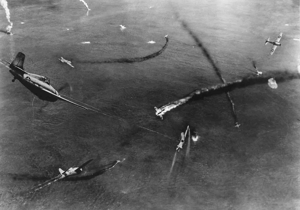 Diorama by Norman Bel Geddes, depicting combat air patrol intercepting the incoming Japanese dive bomber raid on USS Yorktown (CV-5), at about noon on 4 June 1942.